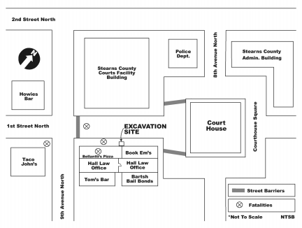 NTSB diagram of the w:1998 St. Cloud explosion in St. Cloud, Minnesota. Image retrieved from Natural Gas Pipeline Rupture and Subsequent Explosion, St. Cloud, Minnesota, December 11, 1998